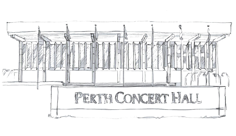 Sketch of perth concert hall